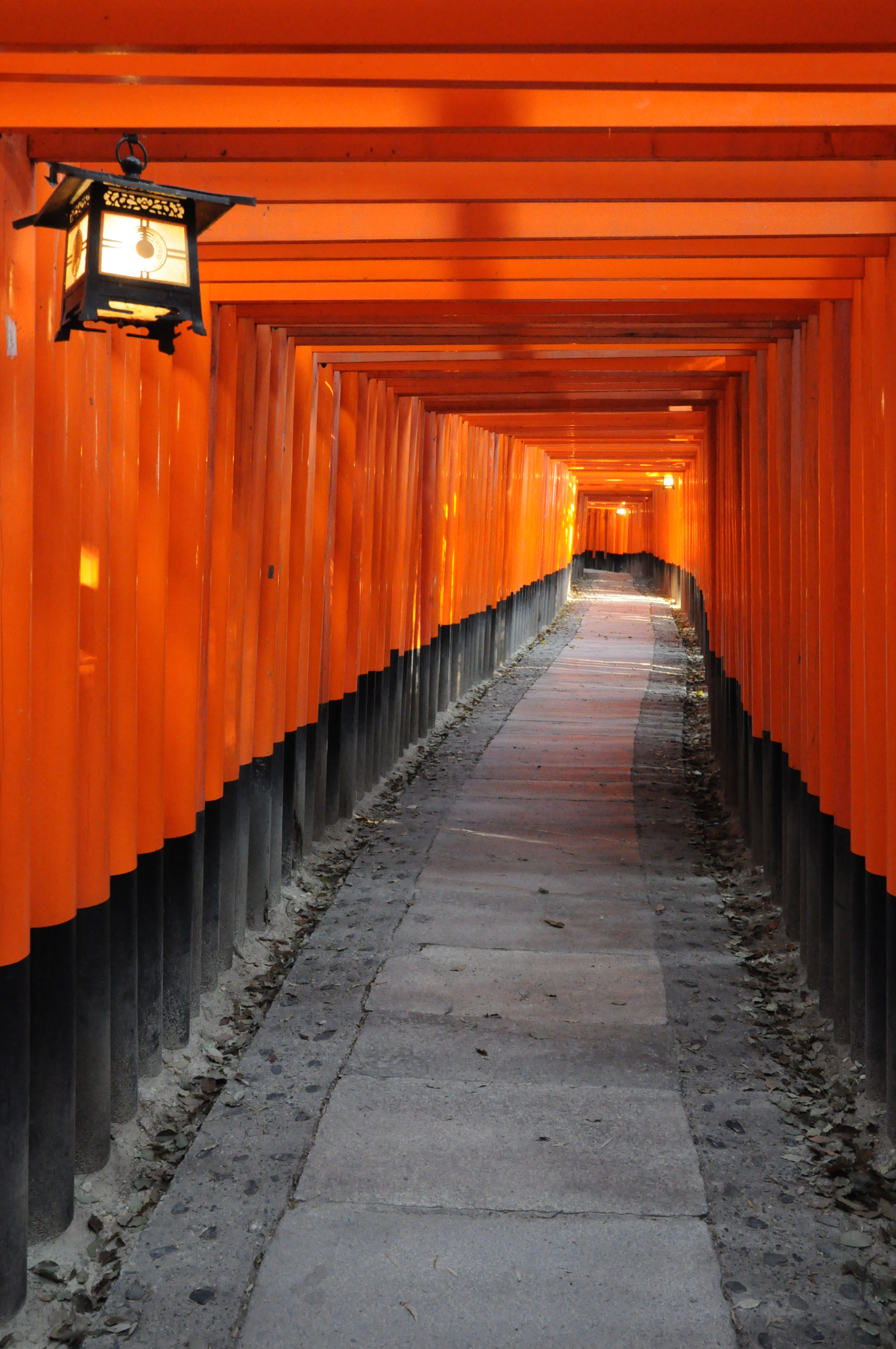 Torii at Fushimi Inari Taisha